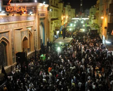 A procession during the Islamic month of Muharram, in the city of Manama, in Bahrain.